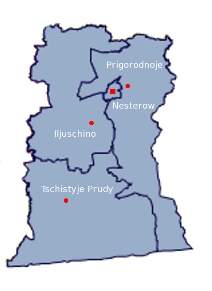 The administrational division of the Nesterovsky District in German transcription